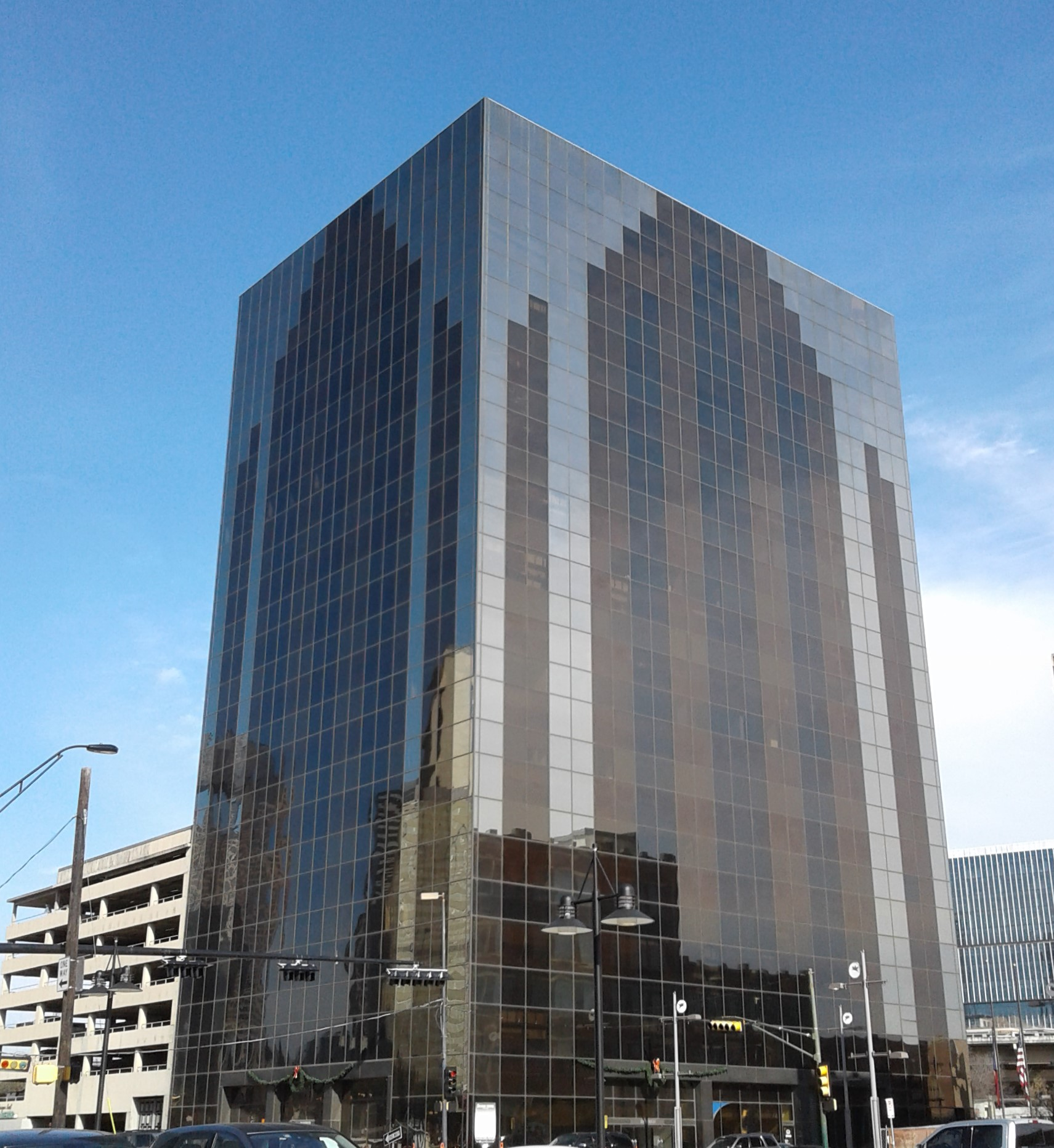 Southwest corner of the Salazar Center office building in Dallas